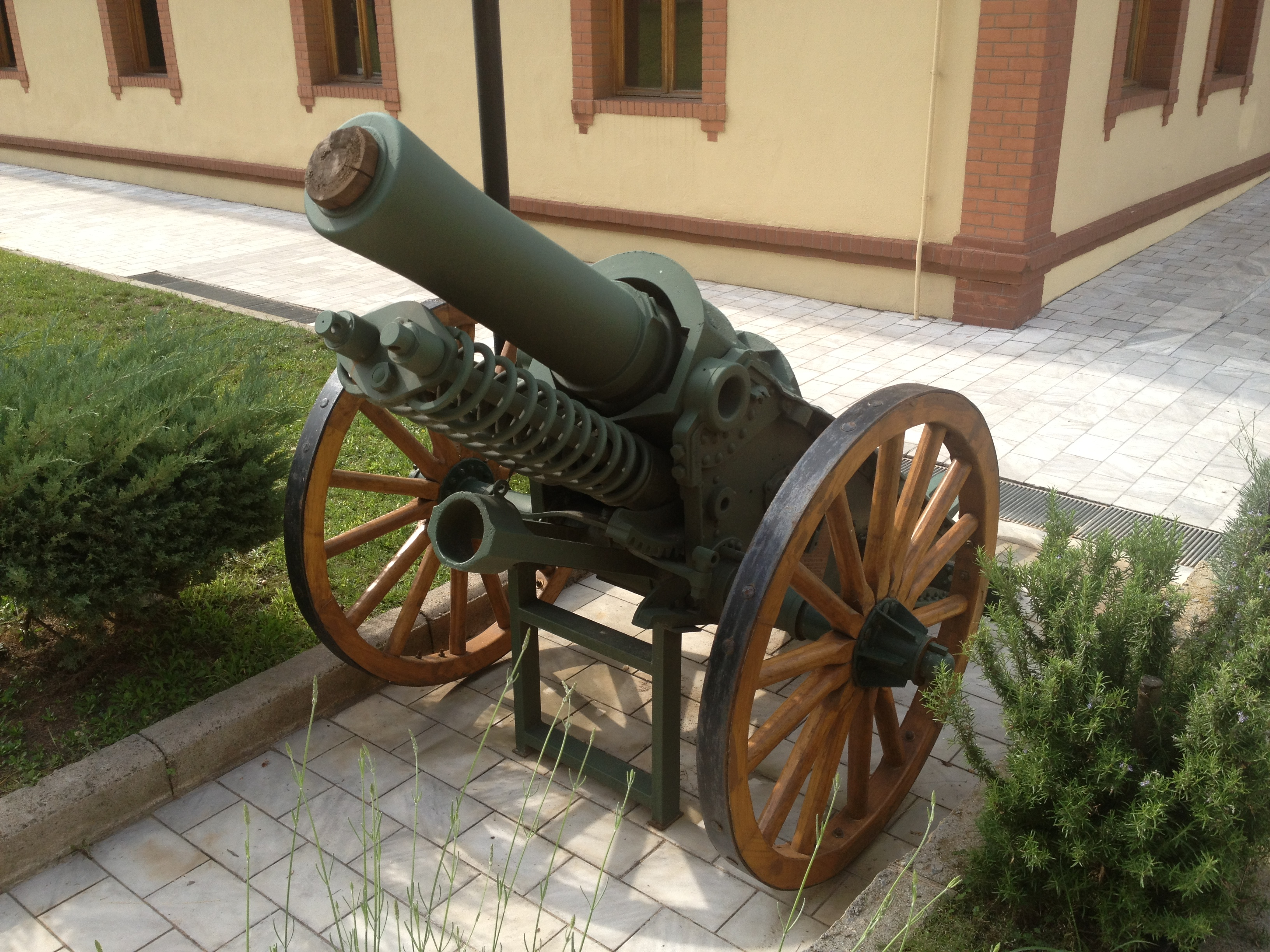 Greek Army BL 6 inch 30 cwt Howitzer, on outdoor exhibition, Thessaloniki War Museum, Salonica, Greece (Front View)